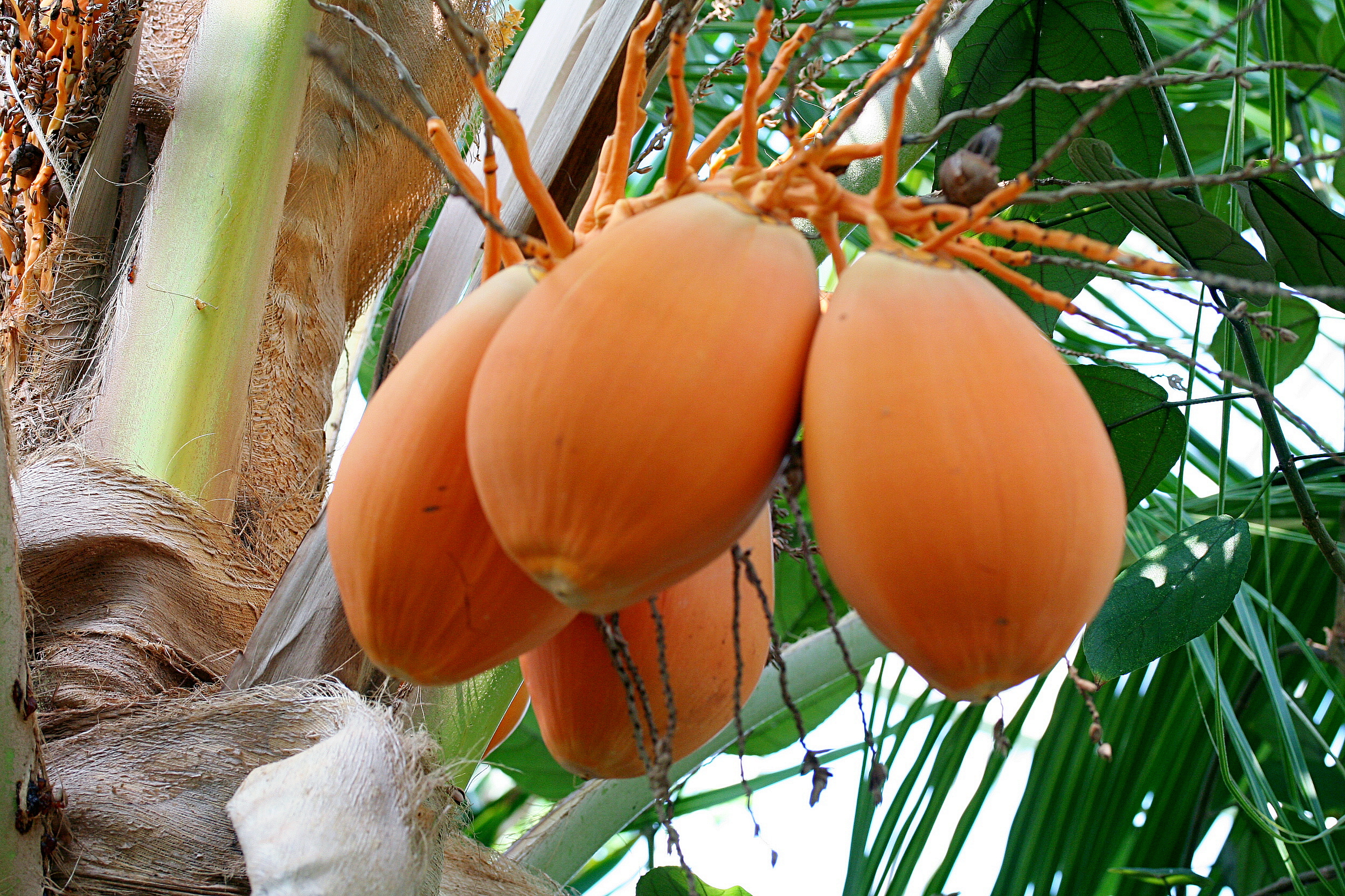 Dwarf Malay.